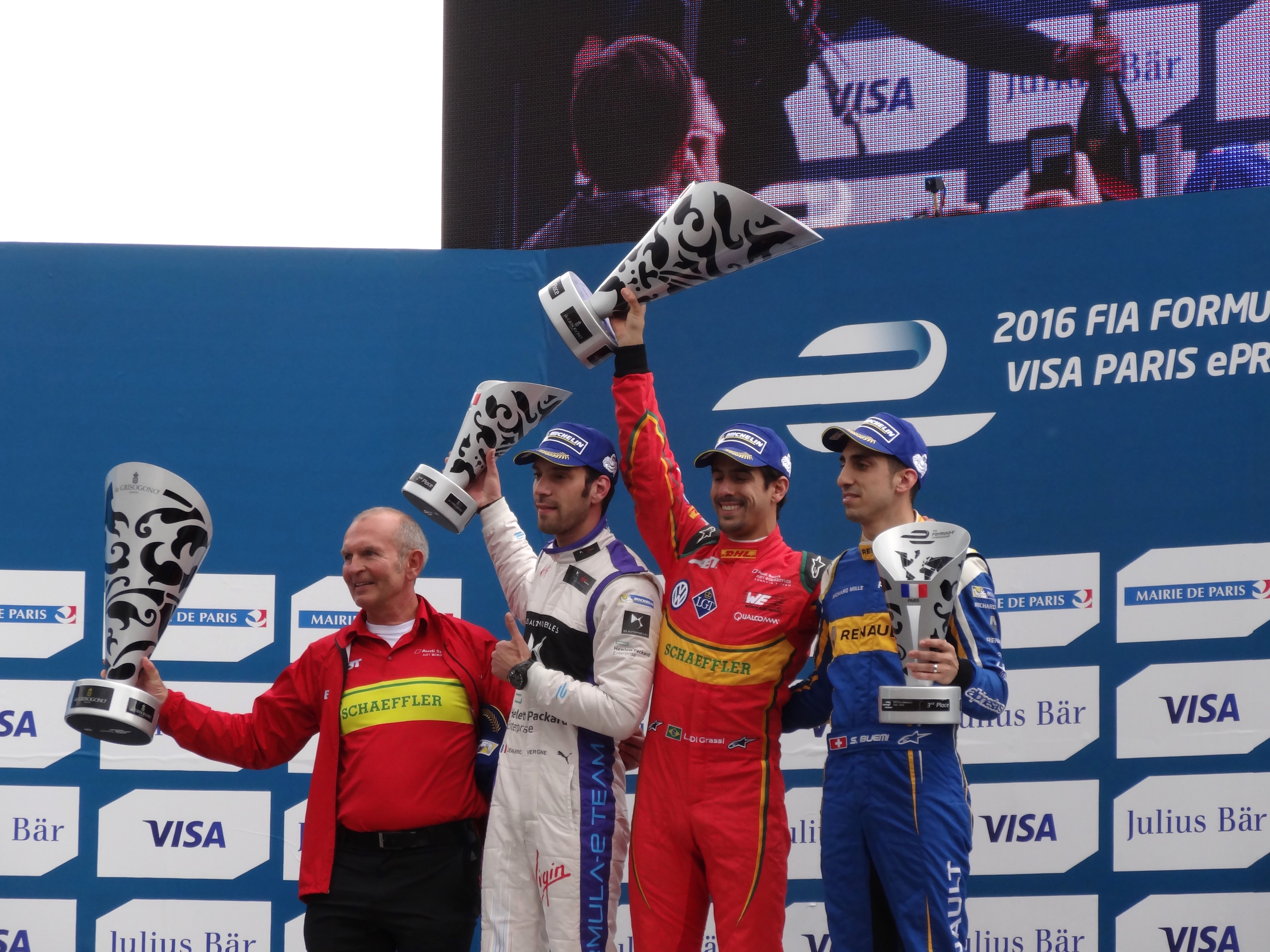 Paris EGP 2016 Podium